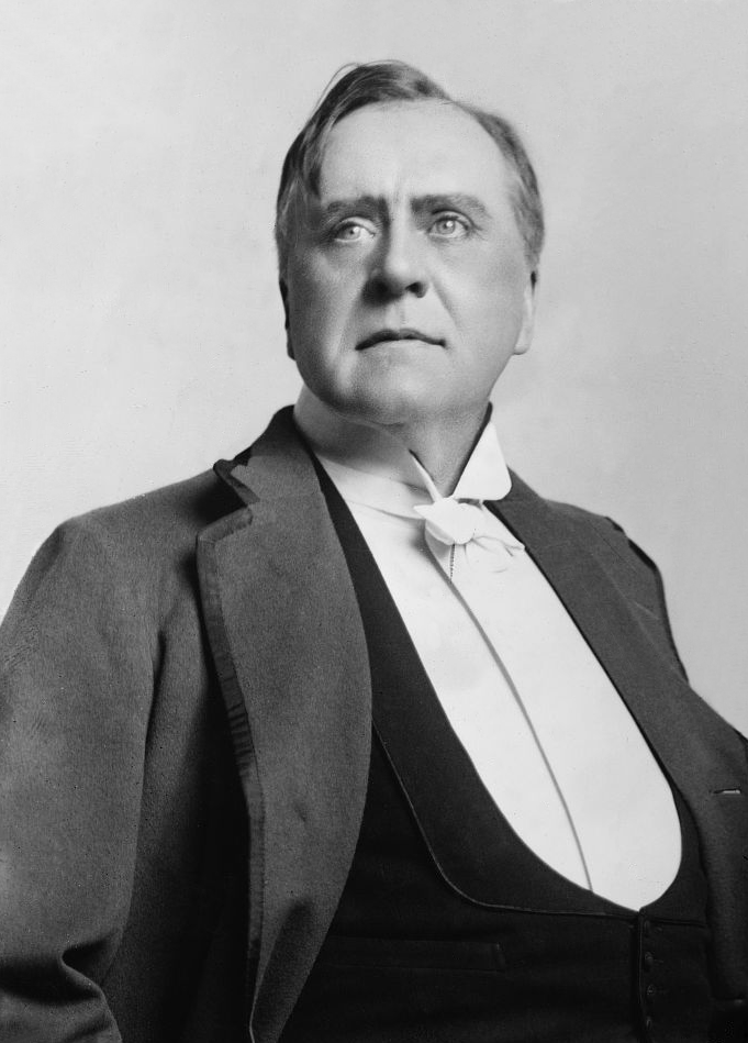 Sir Herbert Tree in "Pygmalion" First version uploaded extremely high res. Second version smaller more Mediawiki friendly.